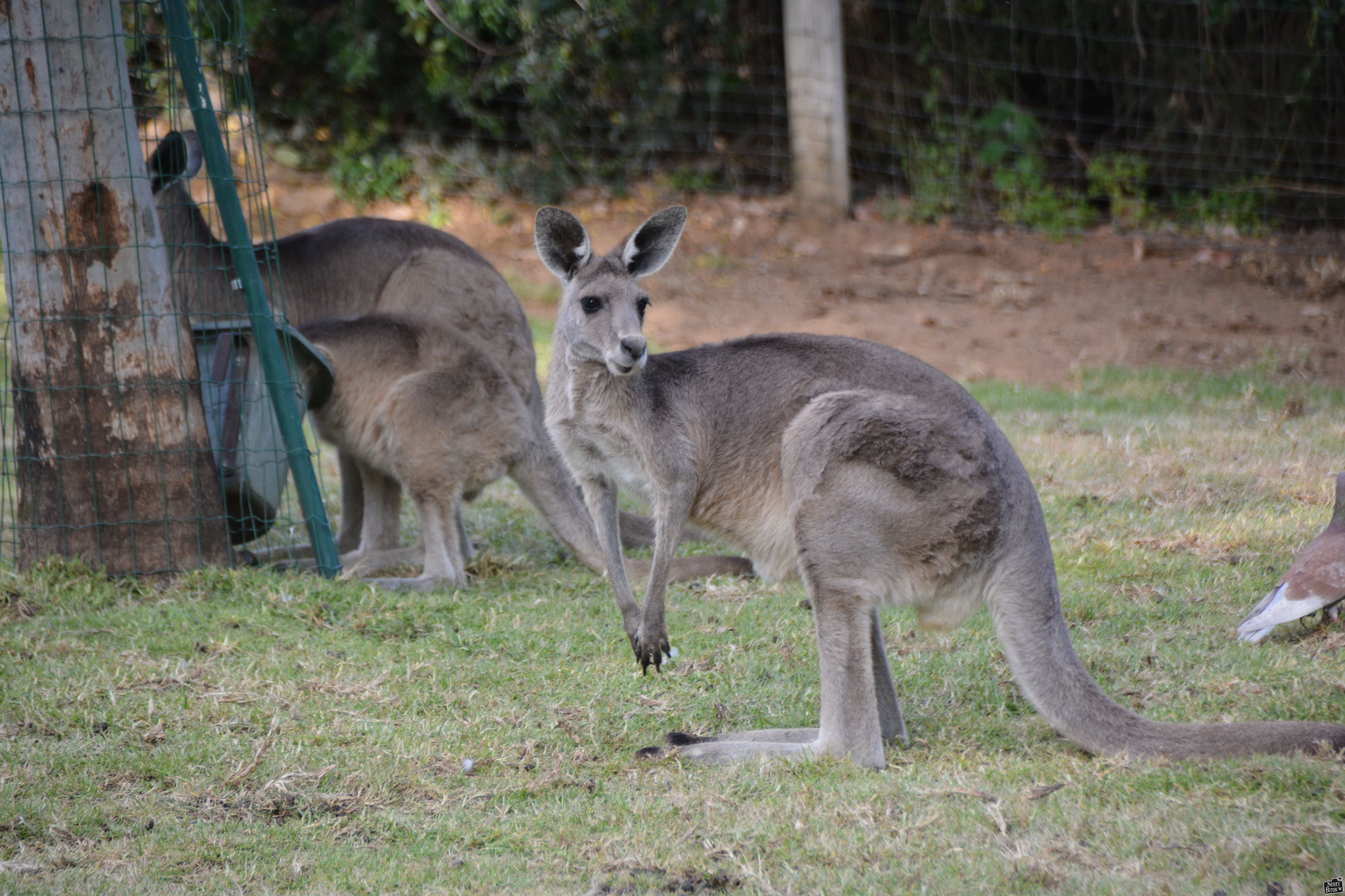 Biblical Zoo in Jerusalem